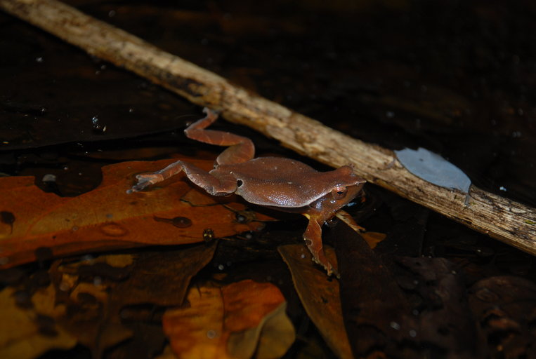 Kalophrynus pleurostigma